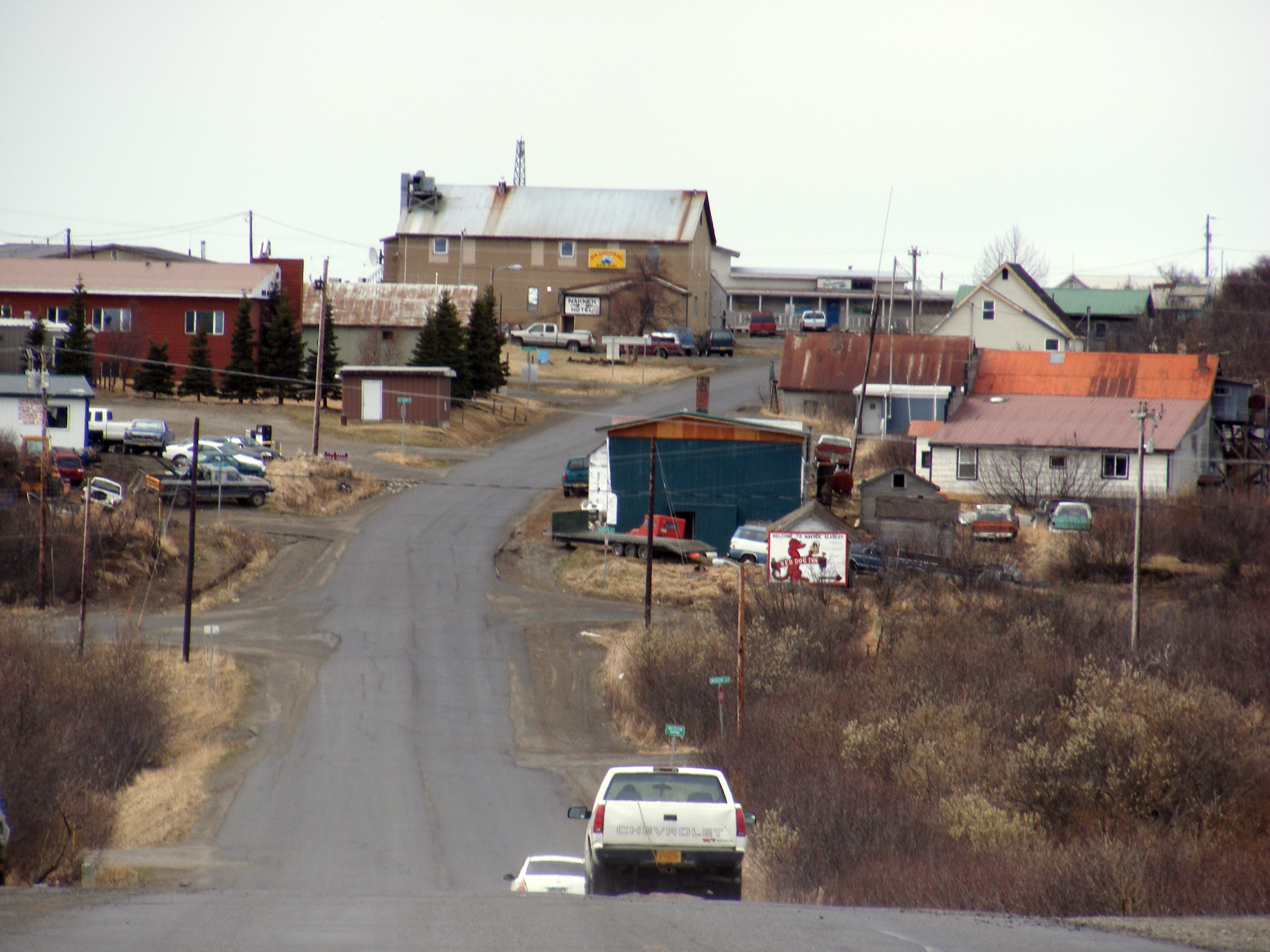 view of the town of Naknek, AK